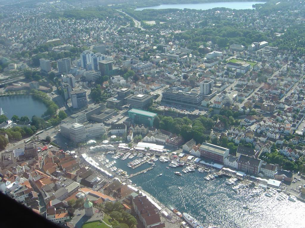 Stavanger Sentrum, Airphoto, Gladmat festival